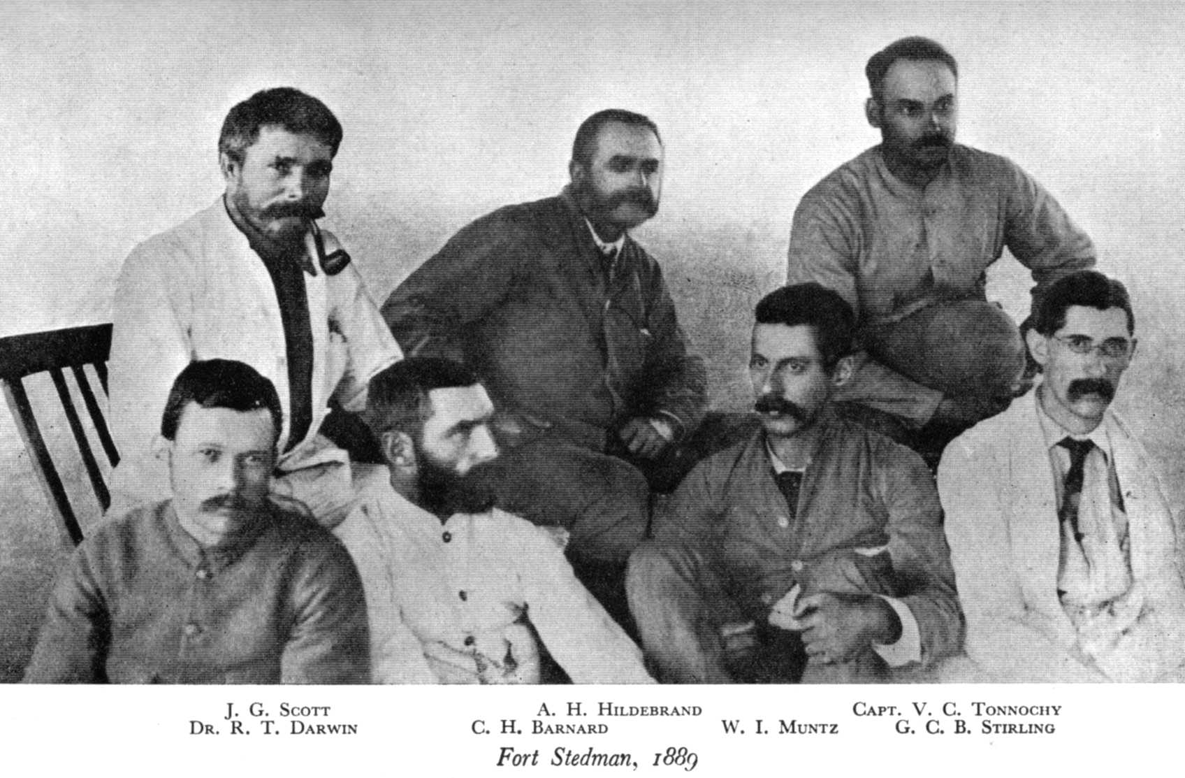 Photo of Scott and colleagues at Fort Stedman